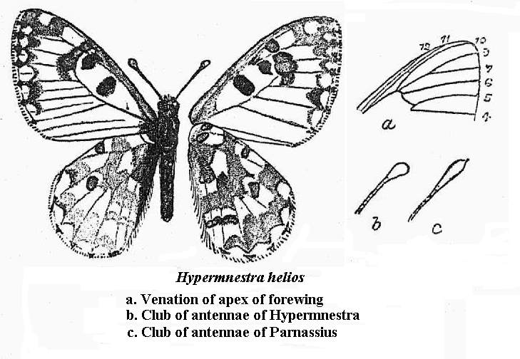 Desert Apollo